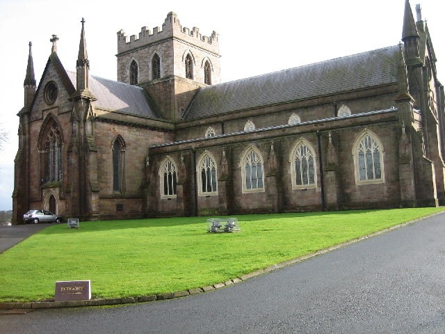 St Patrick's Church of Ireland Cathedral